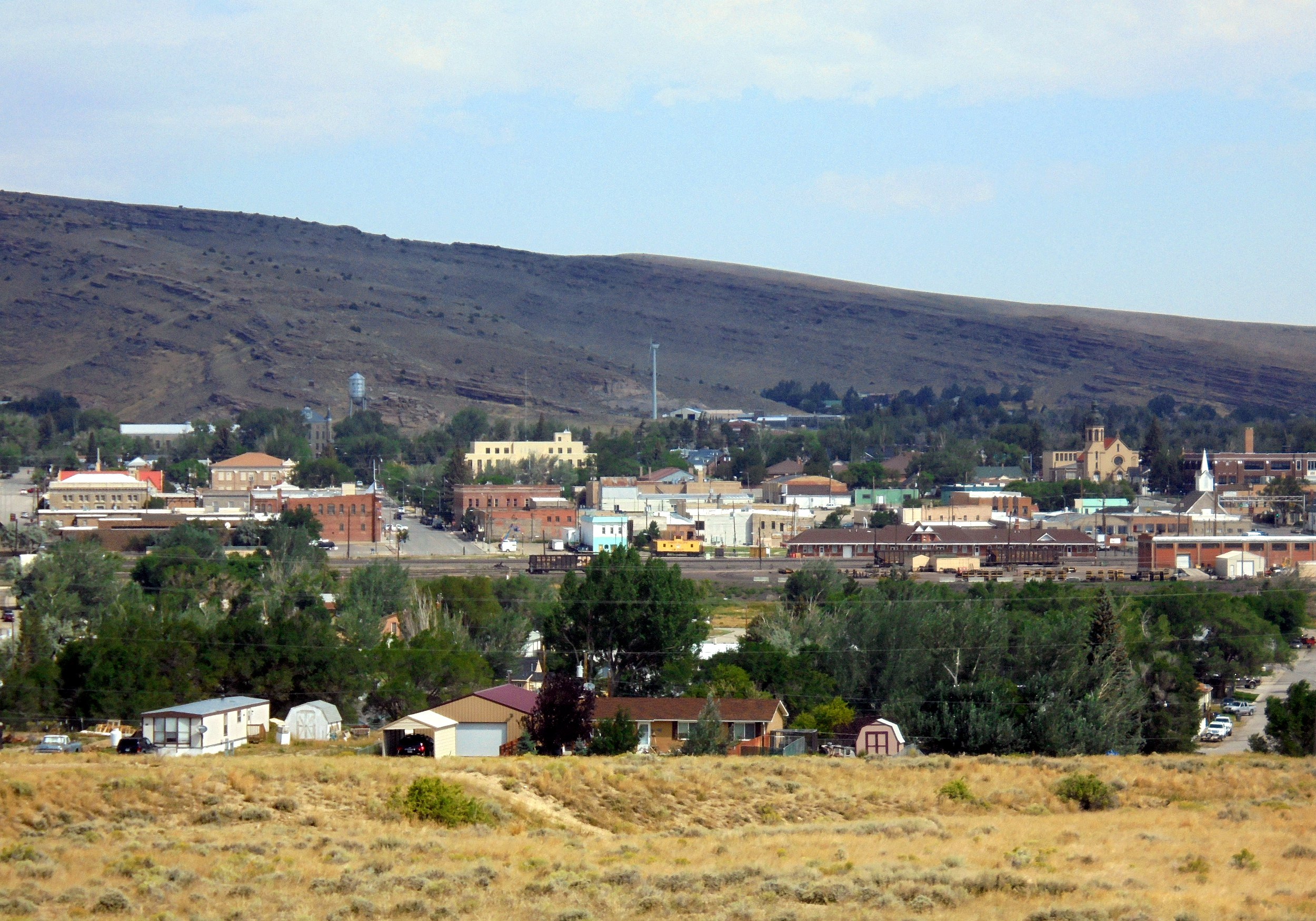 Downtown Rawlings, looking north from I-80